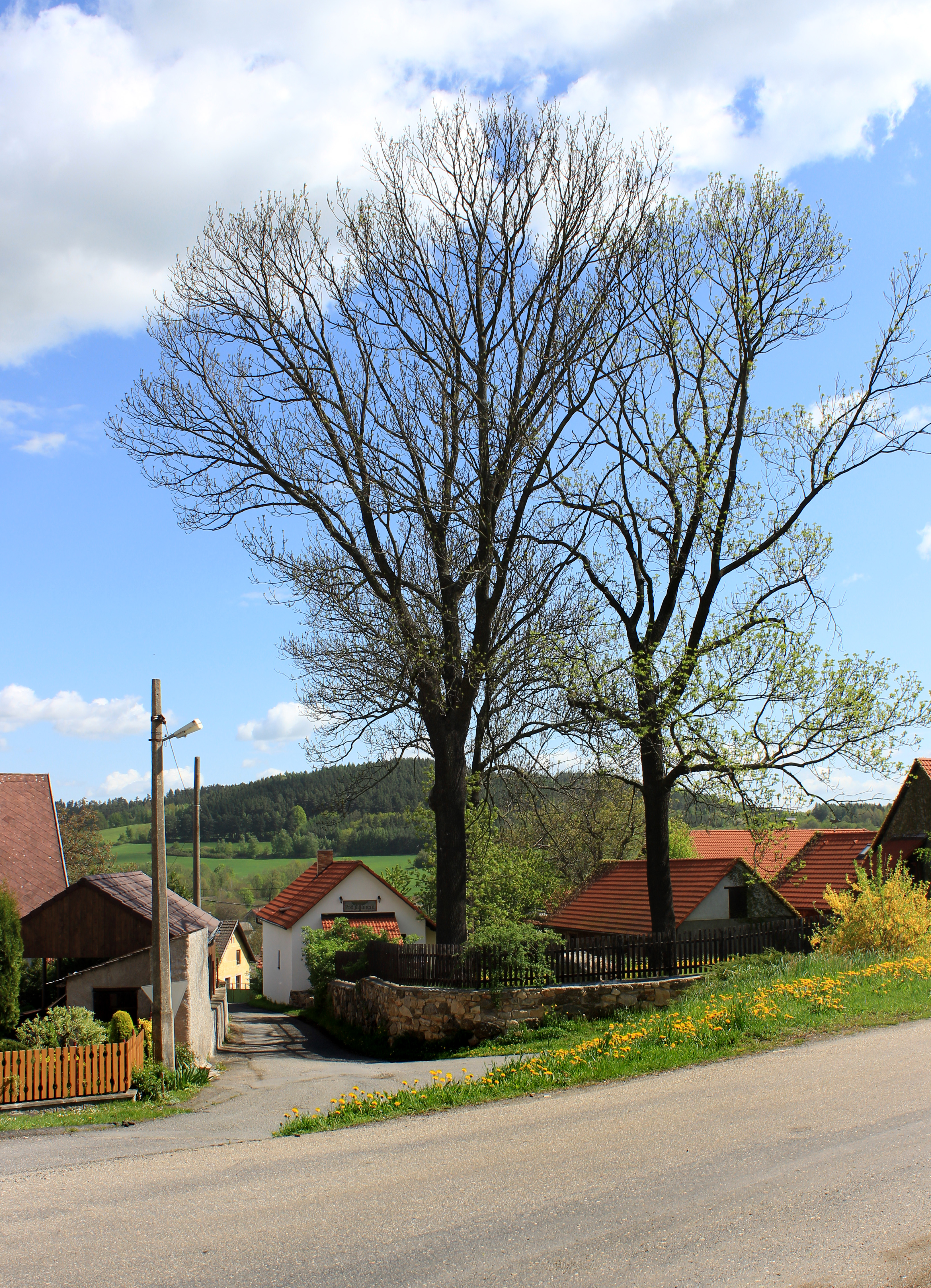 South part of Ředice, part of Nechvalice, Czech Republic.